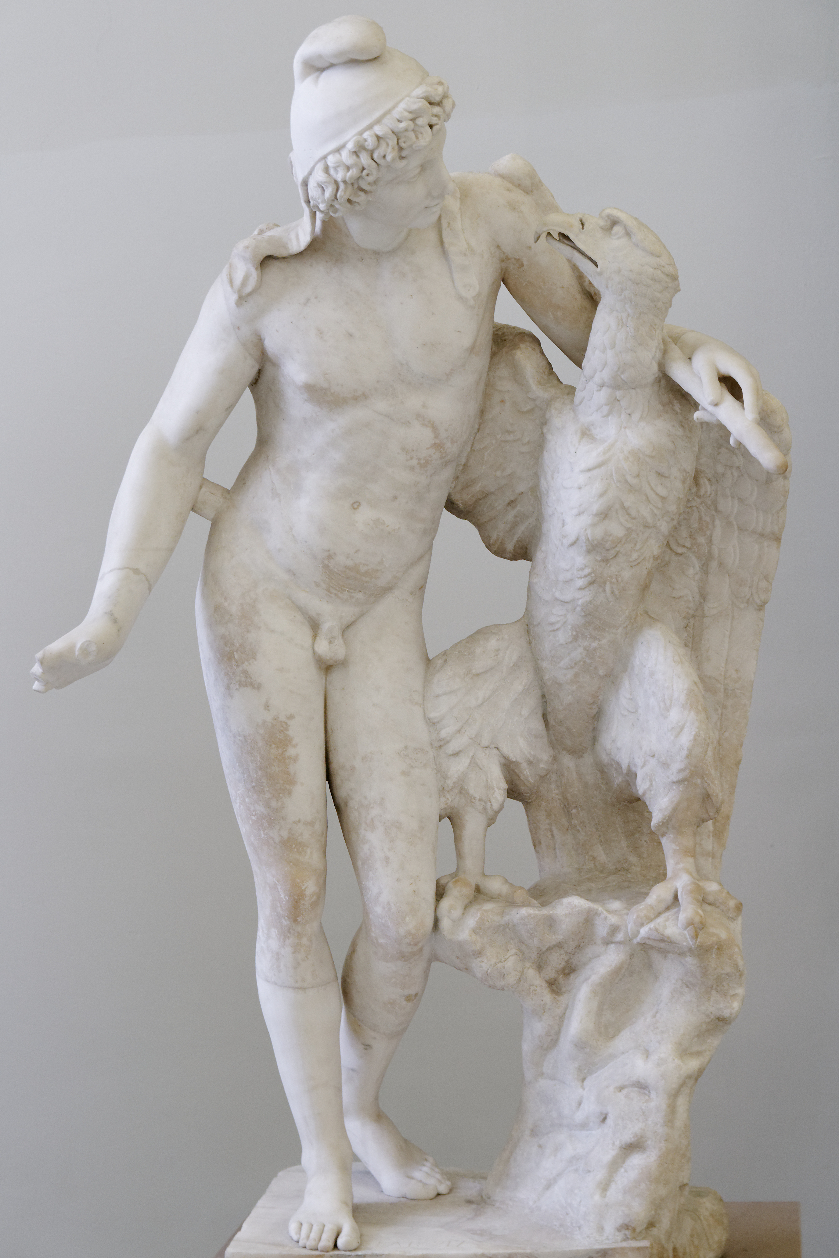 Ganymedes and the eagle.